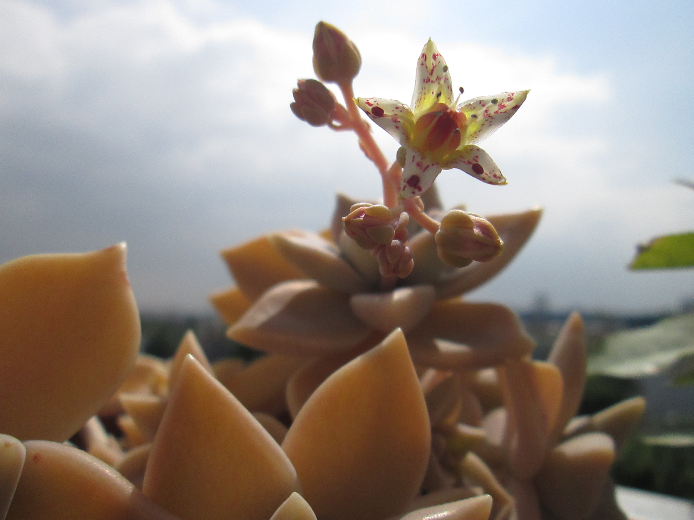 Graptopetalum Paraguayense on a balcony close to Paris, France. May 2015.